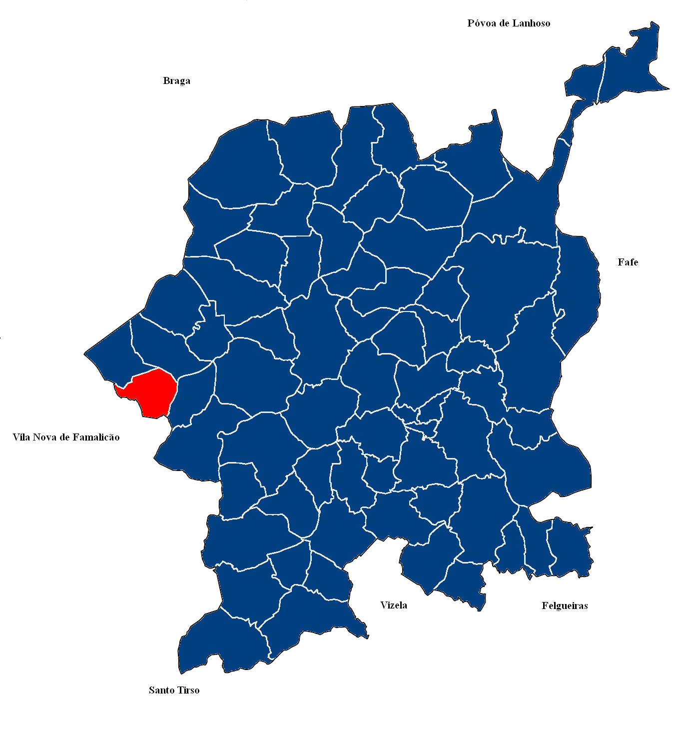 Map of Santa Maria de Airão parish, Guimarães Municipality, Portugal